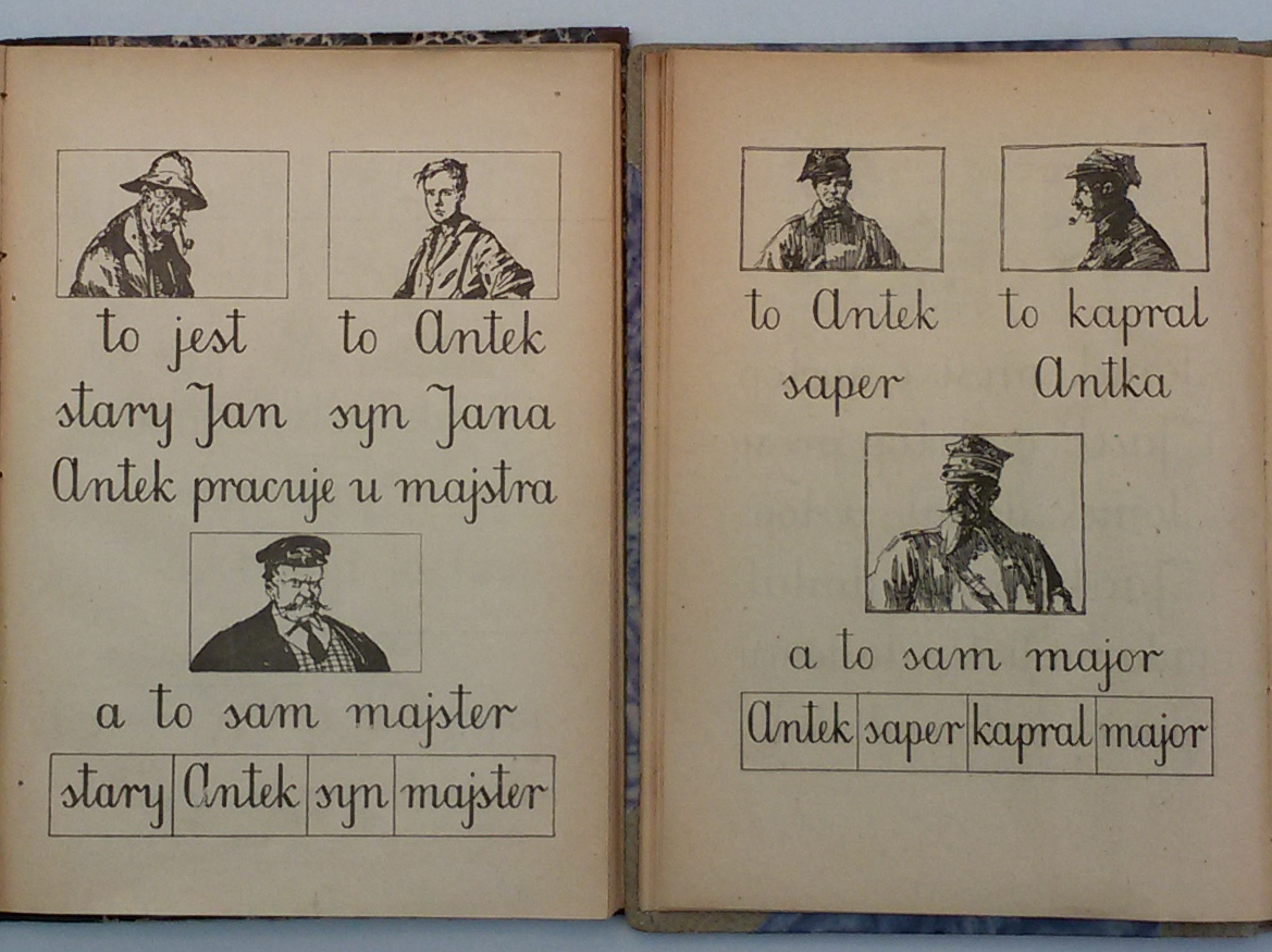 Corresponding pages of two variants of "Elementarz" by Marian Falski: for youth and adults (1922, left) and for soldiers (1921, right)